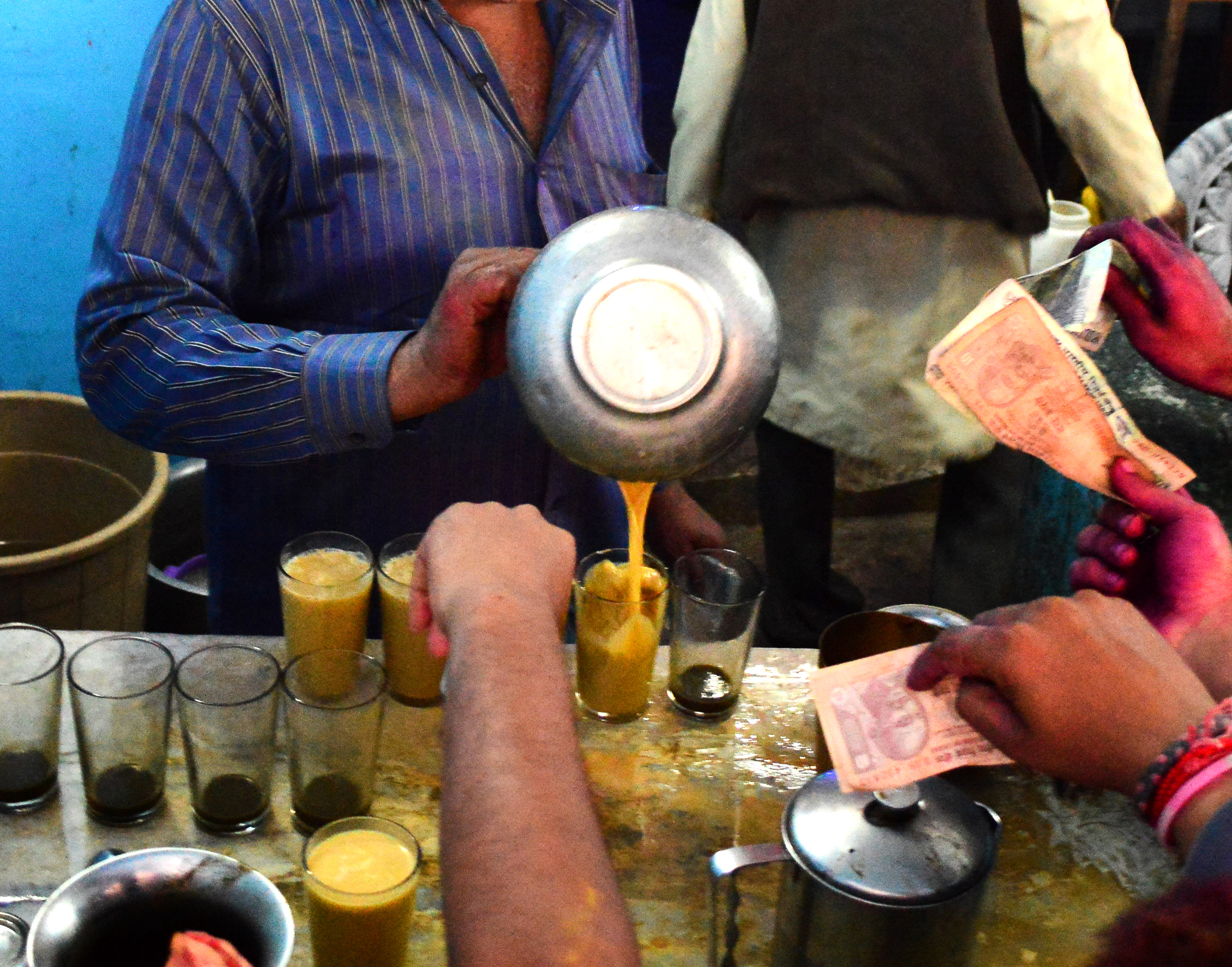 A cool breverage. Some times people add crushed Bhang leaves. Here people rush to the counter to purchase a glass of this drink at the festival of Holi